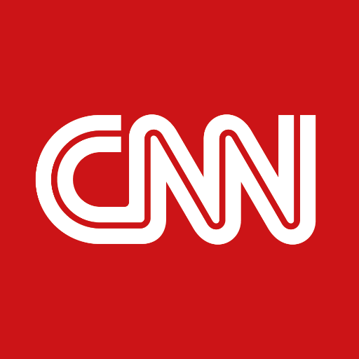 CNN Logo Red Square Background